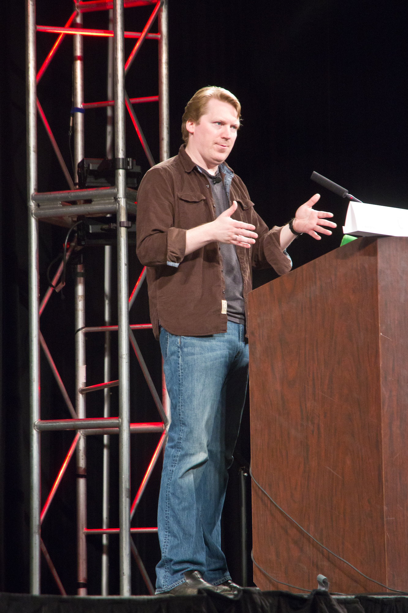 Cameron Sinclair, co-founder of Architecture for Humanity